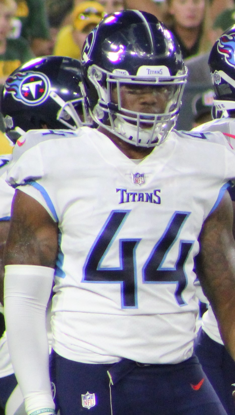 Josh Carraway, Tennessee Titans at Green Bay Packers (Preseason), August 9, 2018